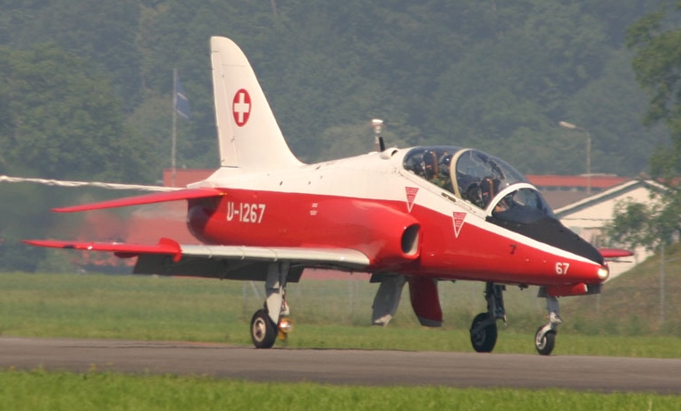 Hawk Mk66